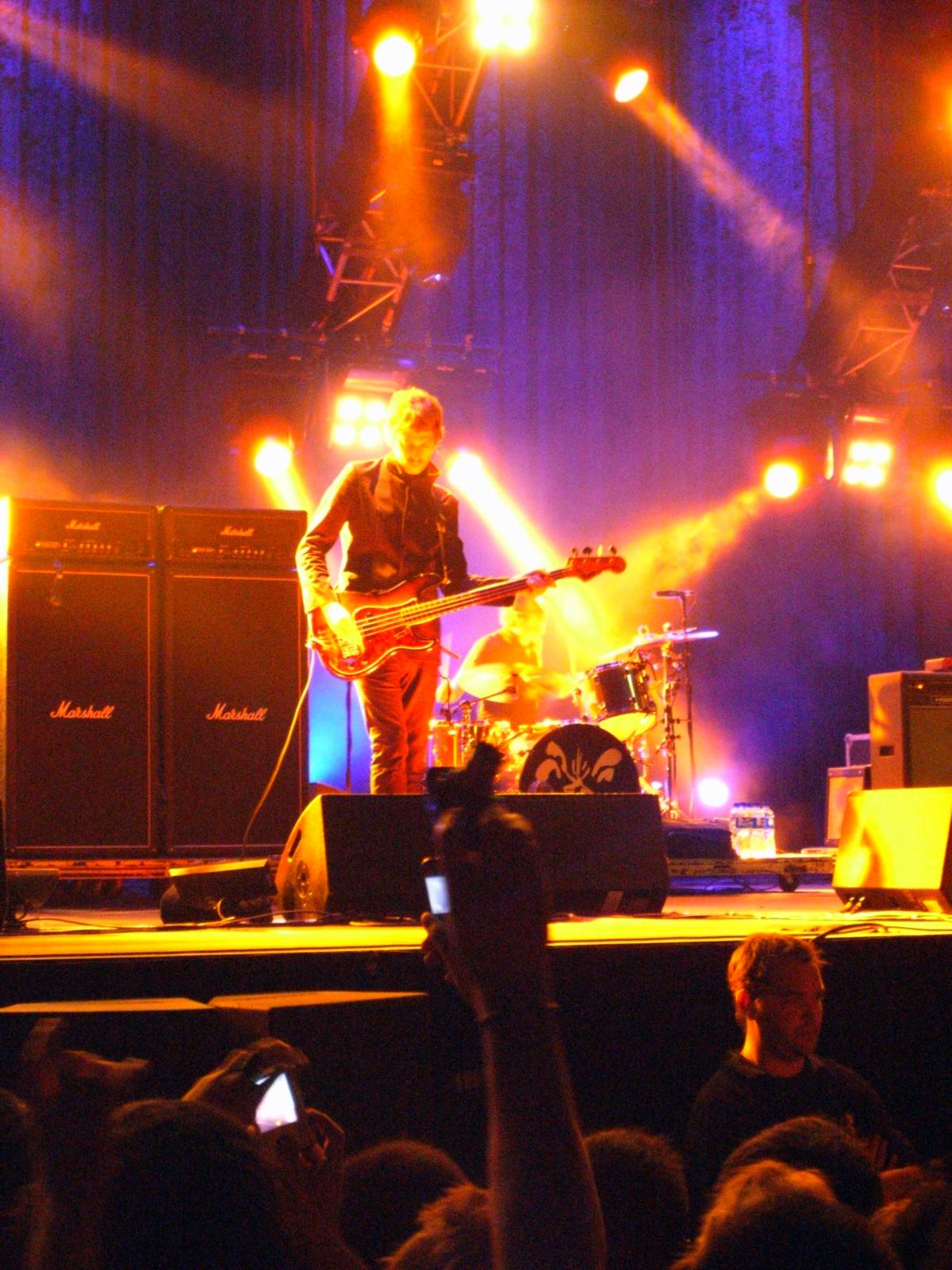 Andy Bell and Chris Sherrock, now of Beady Eye, in Hong Kong on last oasis tour to date.